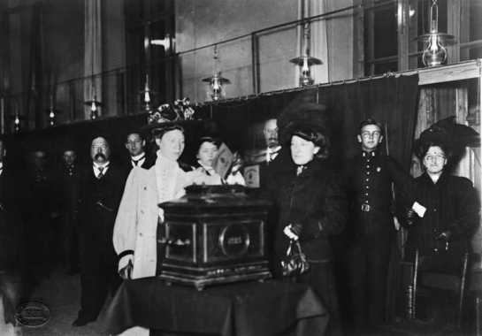 First woman to cast her vote in the municipal election, Akershus slott, Norway. Photo by unknown photographer i the collections of Oslo Museum via DigitaltMuseum.